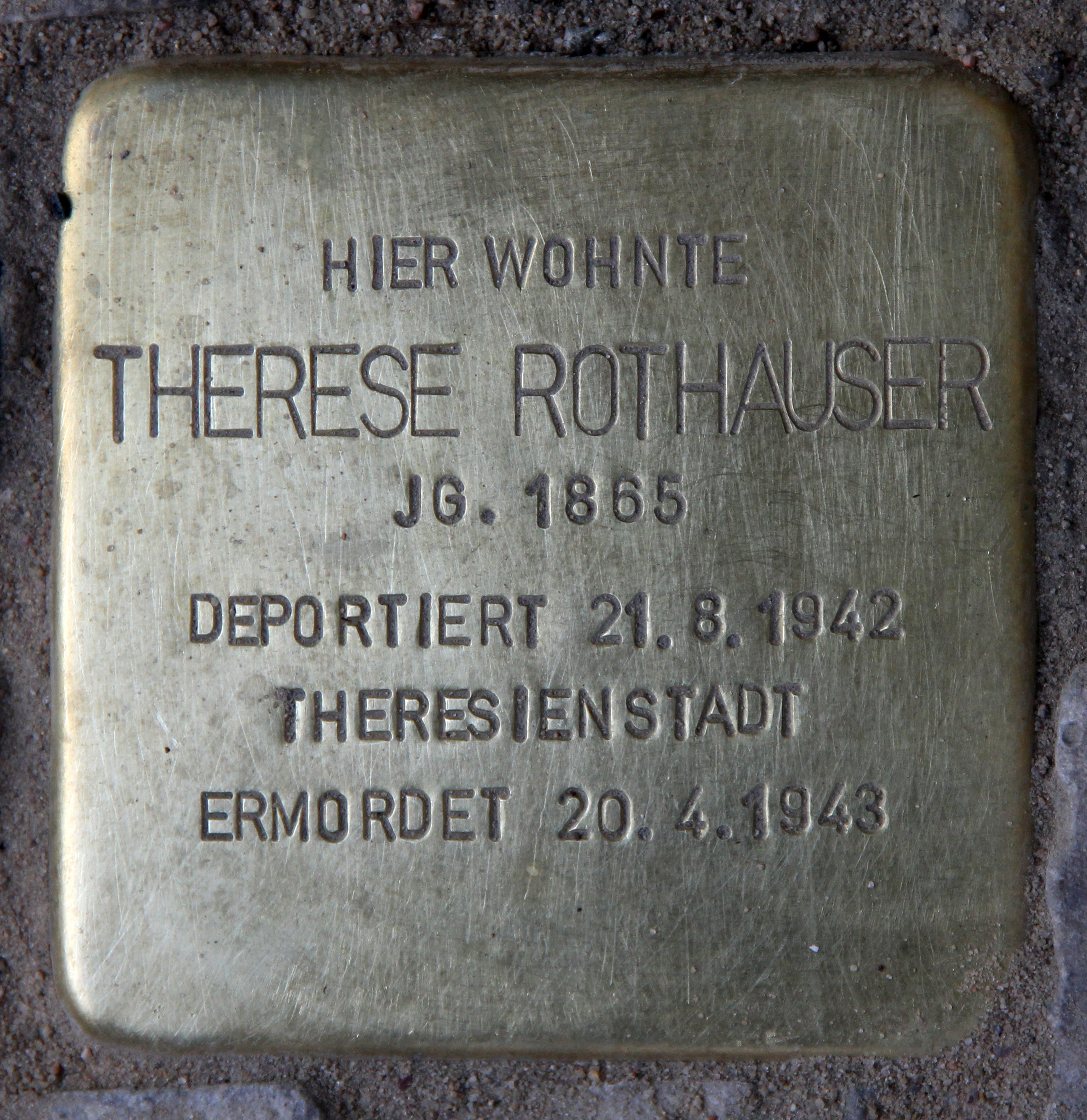 "Stolperstein" (stumbling block), Therese Rothauser, Konstanzer Straße 11, Berlin-Wilmersdorf, Germany